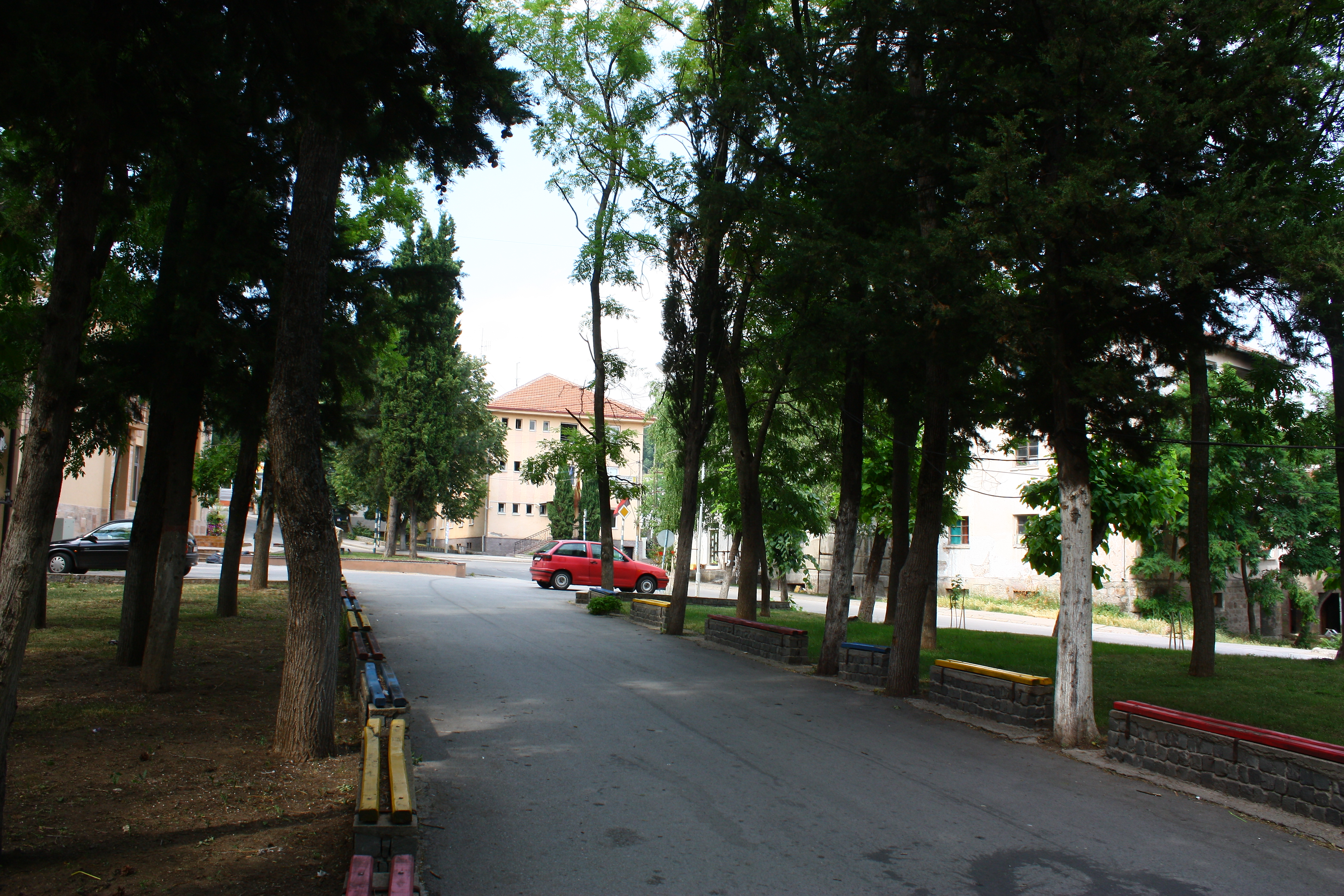 Probištip, Macеdonia.